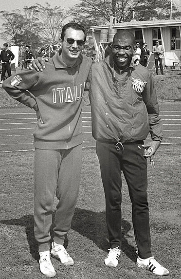 Livio Berruti and Paul Drayton at the Tokyo Olympics. Tokyo, October 1964